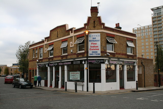 Bengal Empire Indian Restaurant, Milligan Street, Limehouse This building was previously a public house, known as 'The Enterprise'. It closed in November 2000 and was then rebuilt at great expense as an Indian restaurant. I am indebted to Paul Cooper for this information.